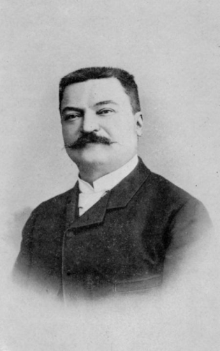 Photo of François Édouard Anatole Lucas.